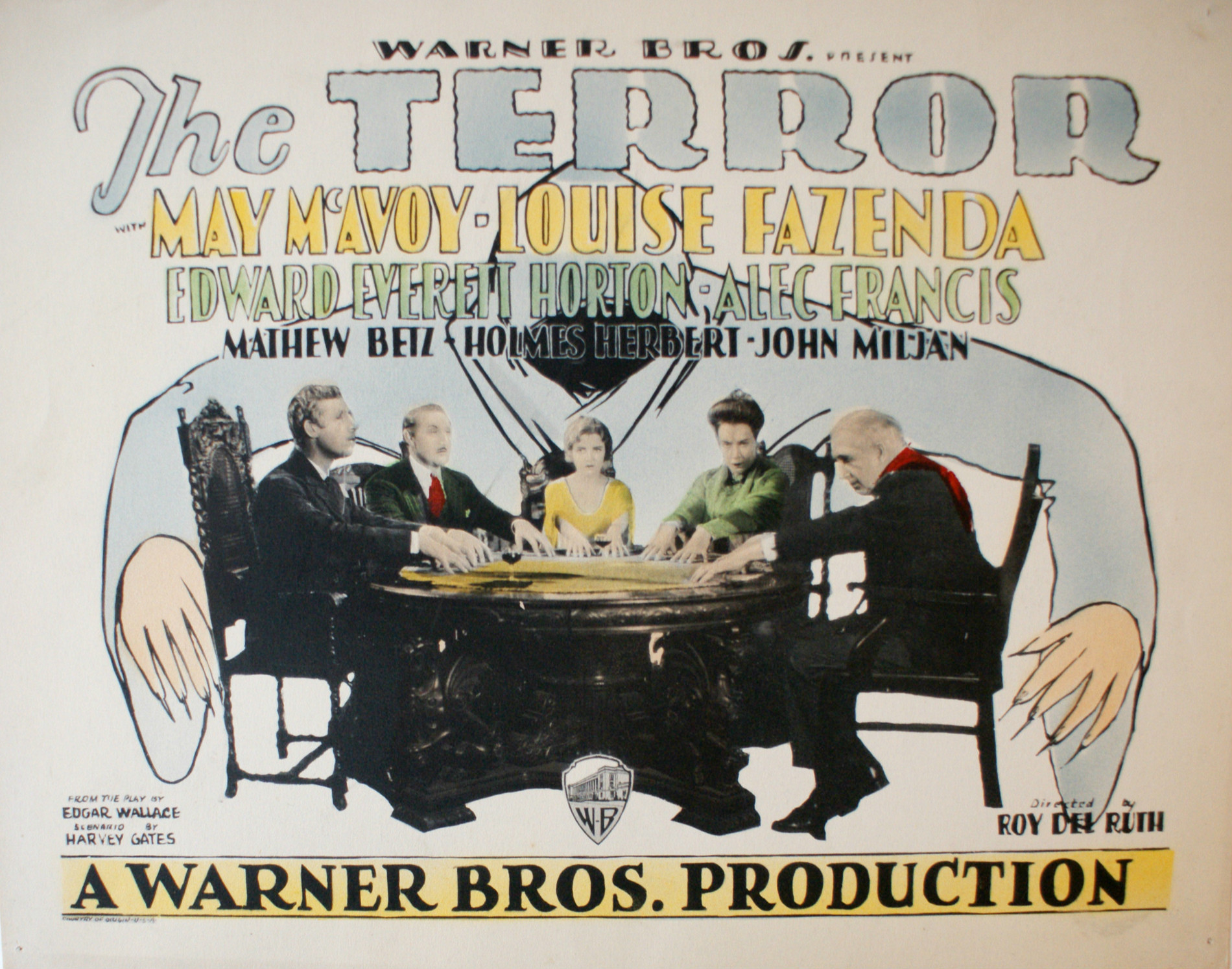 Lobby card for the American horror film The Terror 1928.